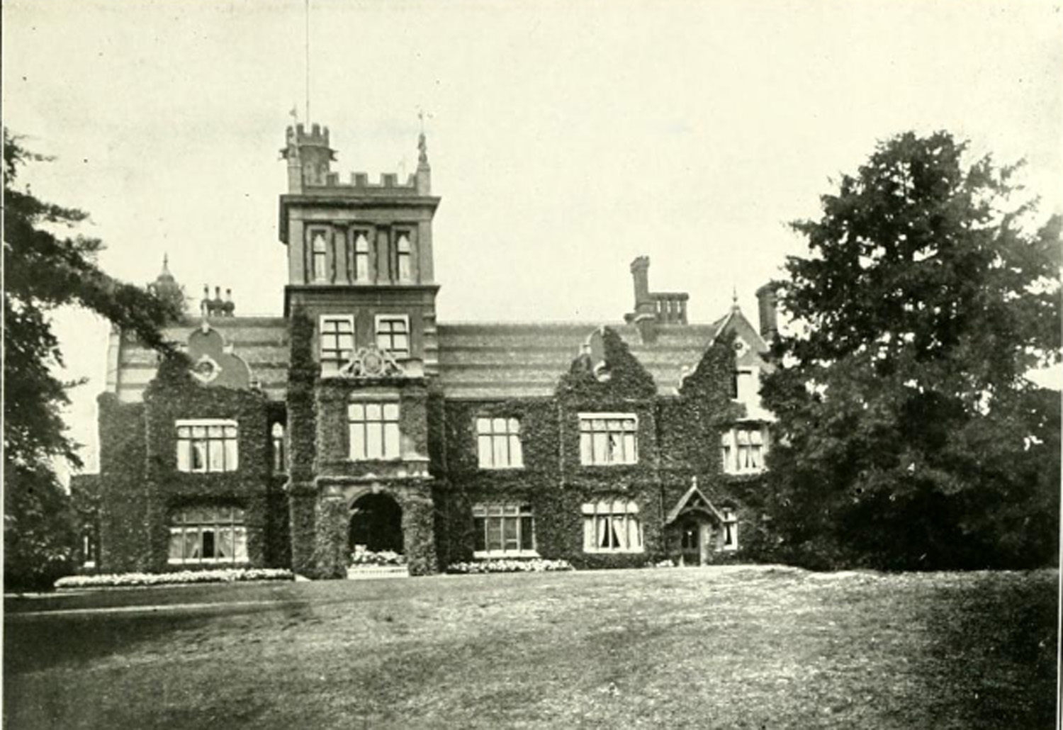 The east view of Caen Wood Towers circa 1900. This house is now Athlone House, Highgate